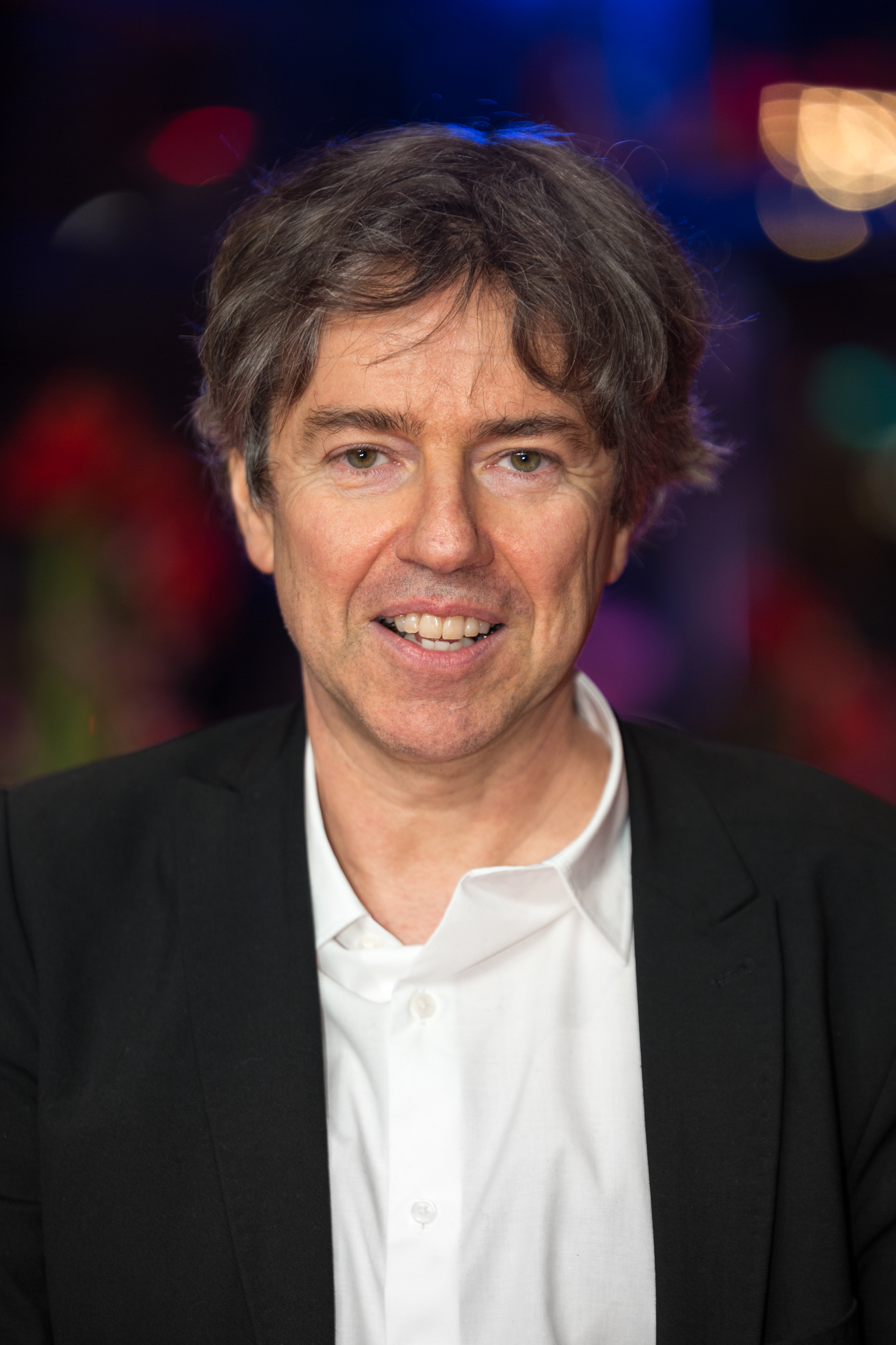 Andres Veiel presenting Beuys, Berlinale 2017